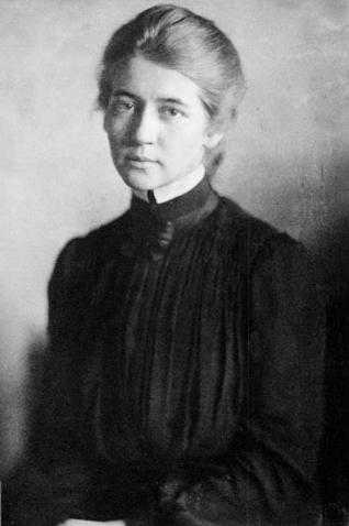 Violet Oakley (1874-1961)